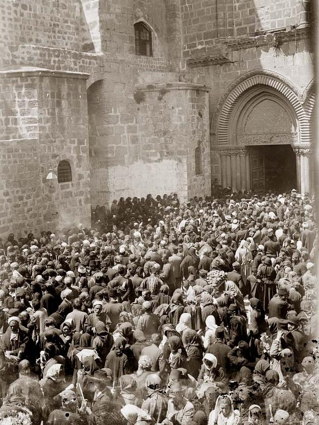 Jerusalem in 1898: crowd in front of the Church of the Holy Sepulchre. Description given at the source: "(...) photo of Crowds in front of the Church of the Holy Sepulchre. It was made in 1898 by the Photography Department of the American Colony Jerusalem." (text from same source)